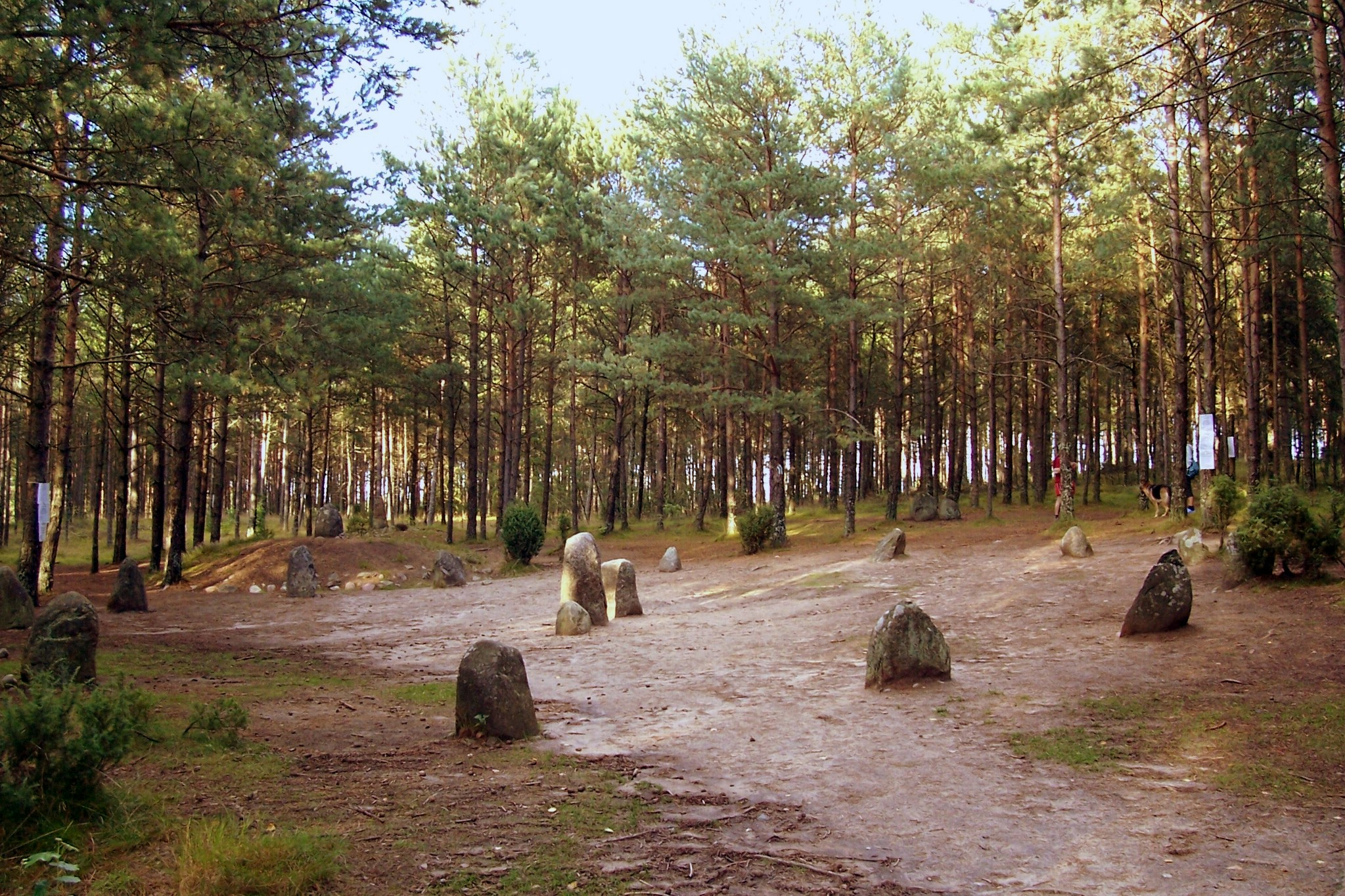 Stone circle near Wesiory, Poland. Archeological site of the Wielbark Culture of the Goths